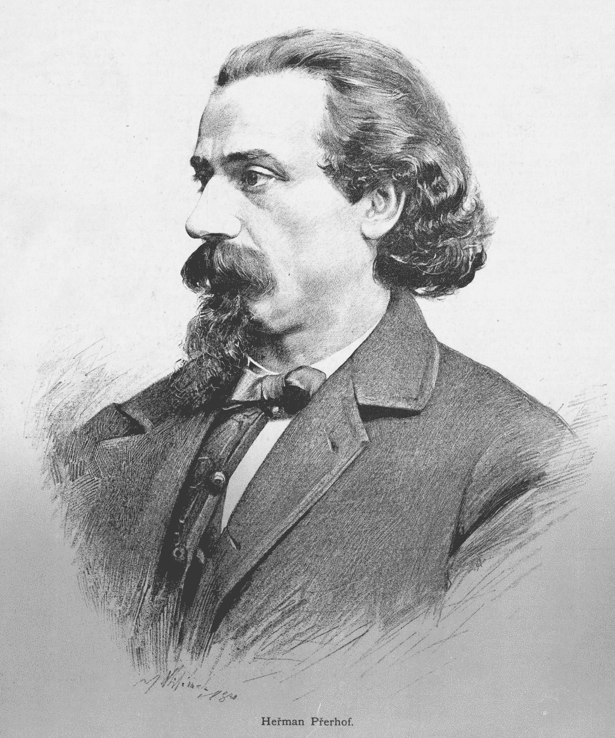 Portrait of Heřman Přerhof (1831 - 1867), Czech recitator and organizer of Czech cultural events.